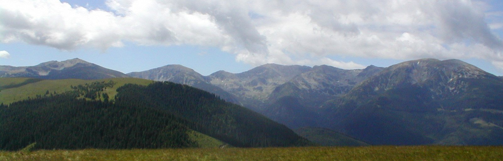 Photograph of the Southern Carpathian Parâng Mountains, taken from north, somewhere near the Buha hill in Sureanu. The highest mountain slightly right from the center, having two little peaks, is the 2,519 m high Parângu_Mare.